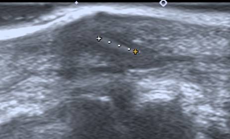 Subcutaneous foreign body (splinter in a finger) 4.5mm x 1.3mm nailed 1.5mm deep with oblique stroke